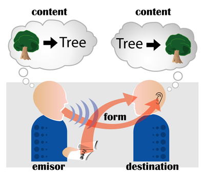 Luis Javier Rodriguez, made for wikipedia, might be found on a future at my website